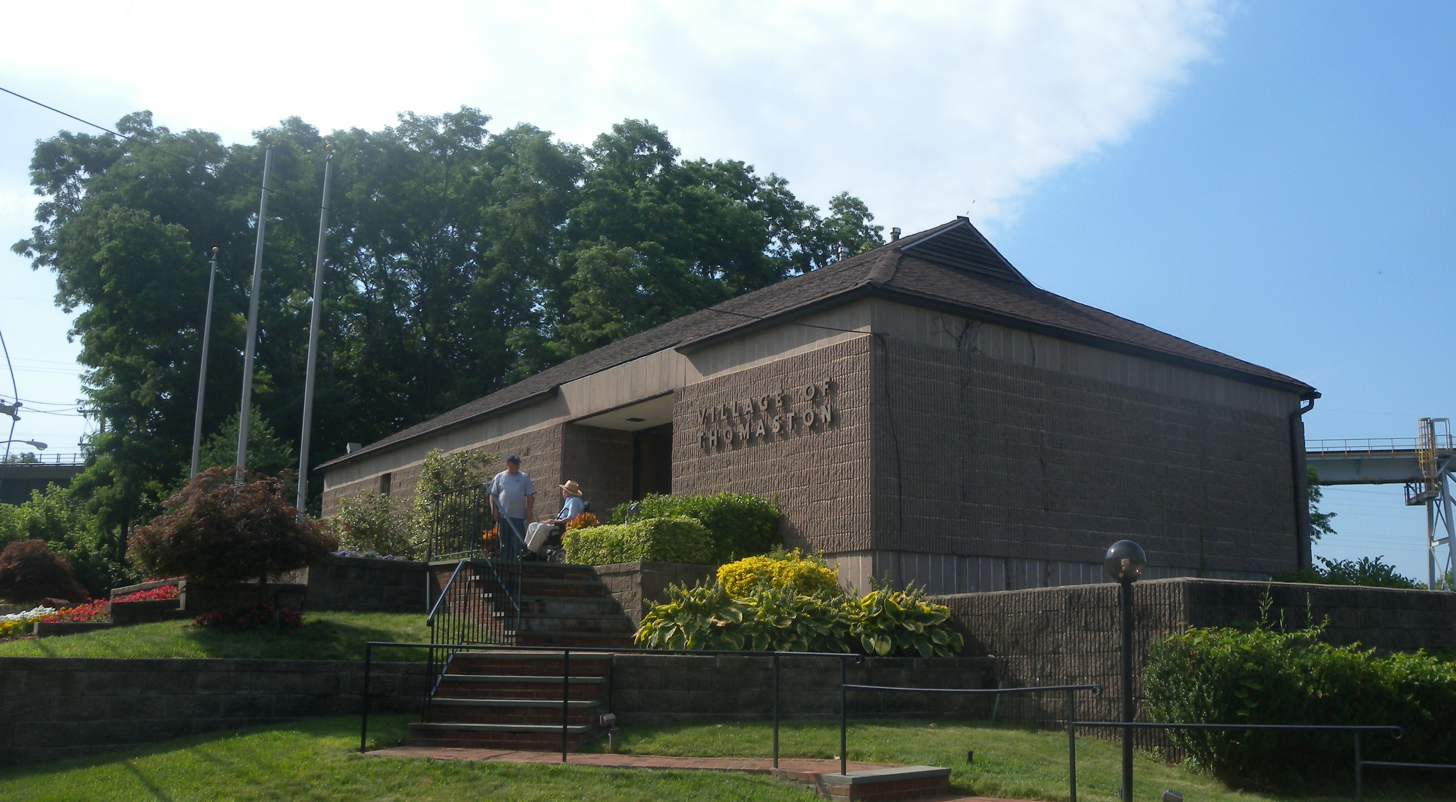 Looking north at Thomaston Village Hall on a sunny afternoon.